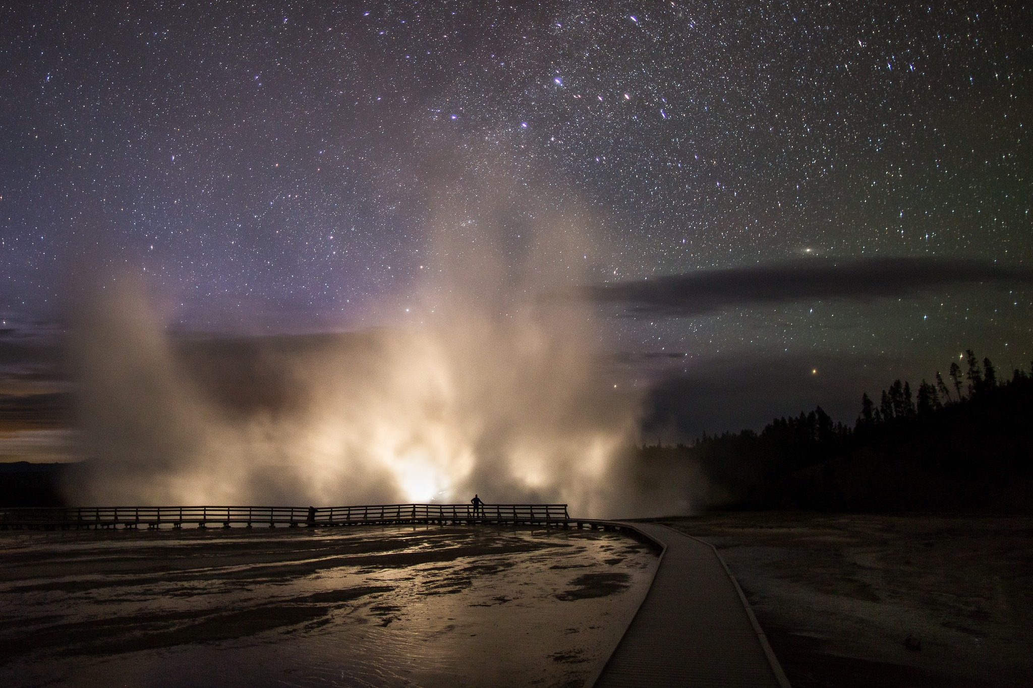 Car headlights illuminate the steam plume from Excelsior Geyser, part of the Midway Geyser Basin at Yellowstone National Park in Wyoming. A sea of stars above adds natural light to this otherworldly summer scene. Visit the park -- which has more geyers than anywhere else on earth -- to see these famous natural features.